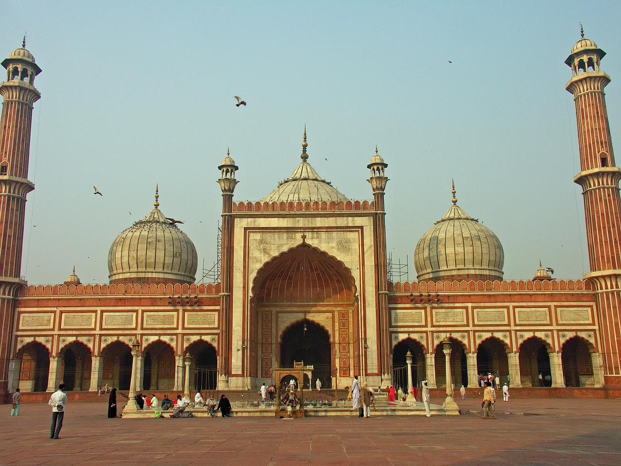 The main mosque is crowned by three onion shaped domes made of white marble and inlaid with stripes of black slate. On the north and south of the complex are two 130 feet high minarets. Jama Masjid is not only architecturally beautiful, but also a place of great religious significance as it houses a hair from the beard of the Prophet and also a chapter of the Holy Quran written by him.